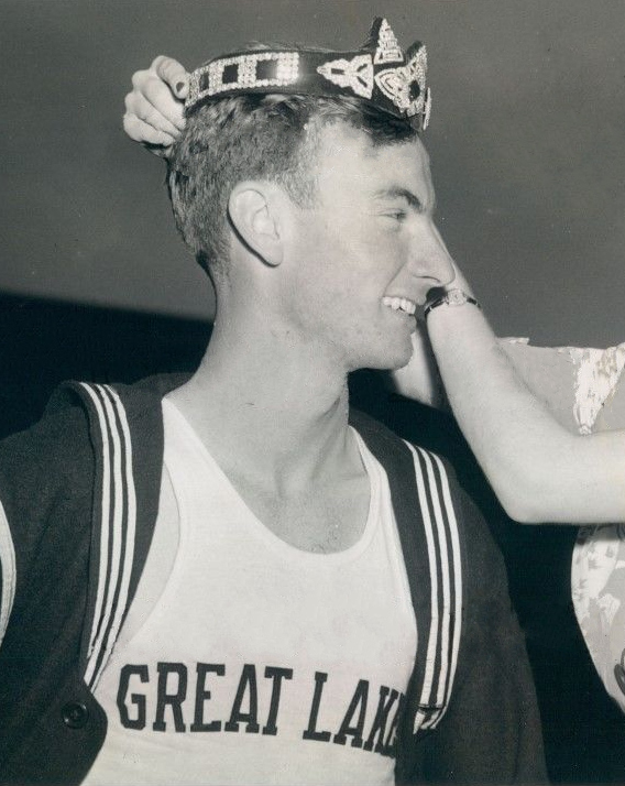 1942 Track & Field Star Roy Cochran With Kay Abernathy Drake Relay Press Photo